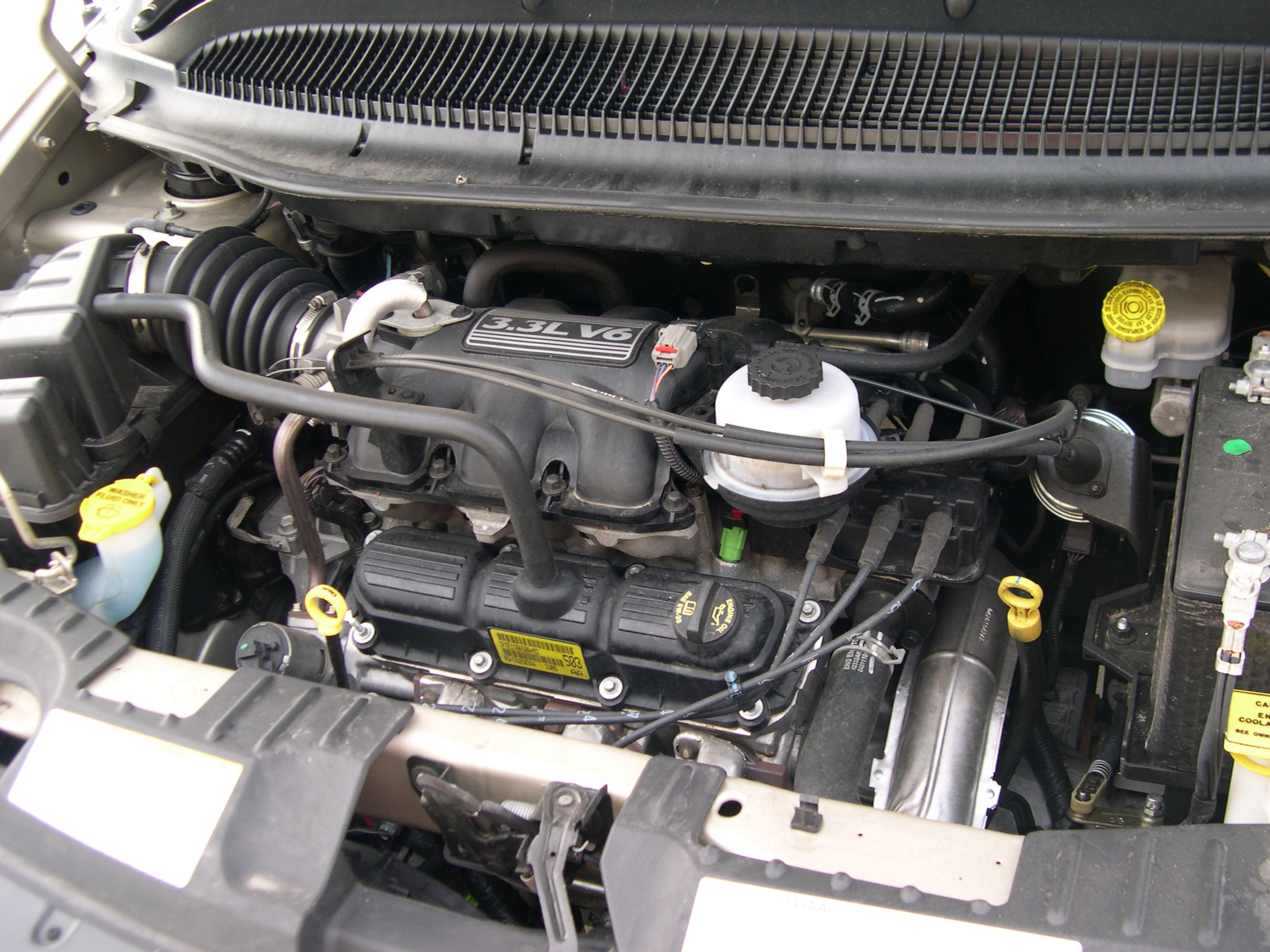 2005 Chrysler Town and Country LX